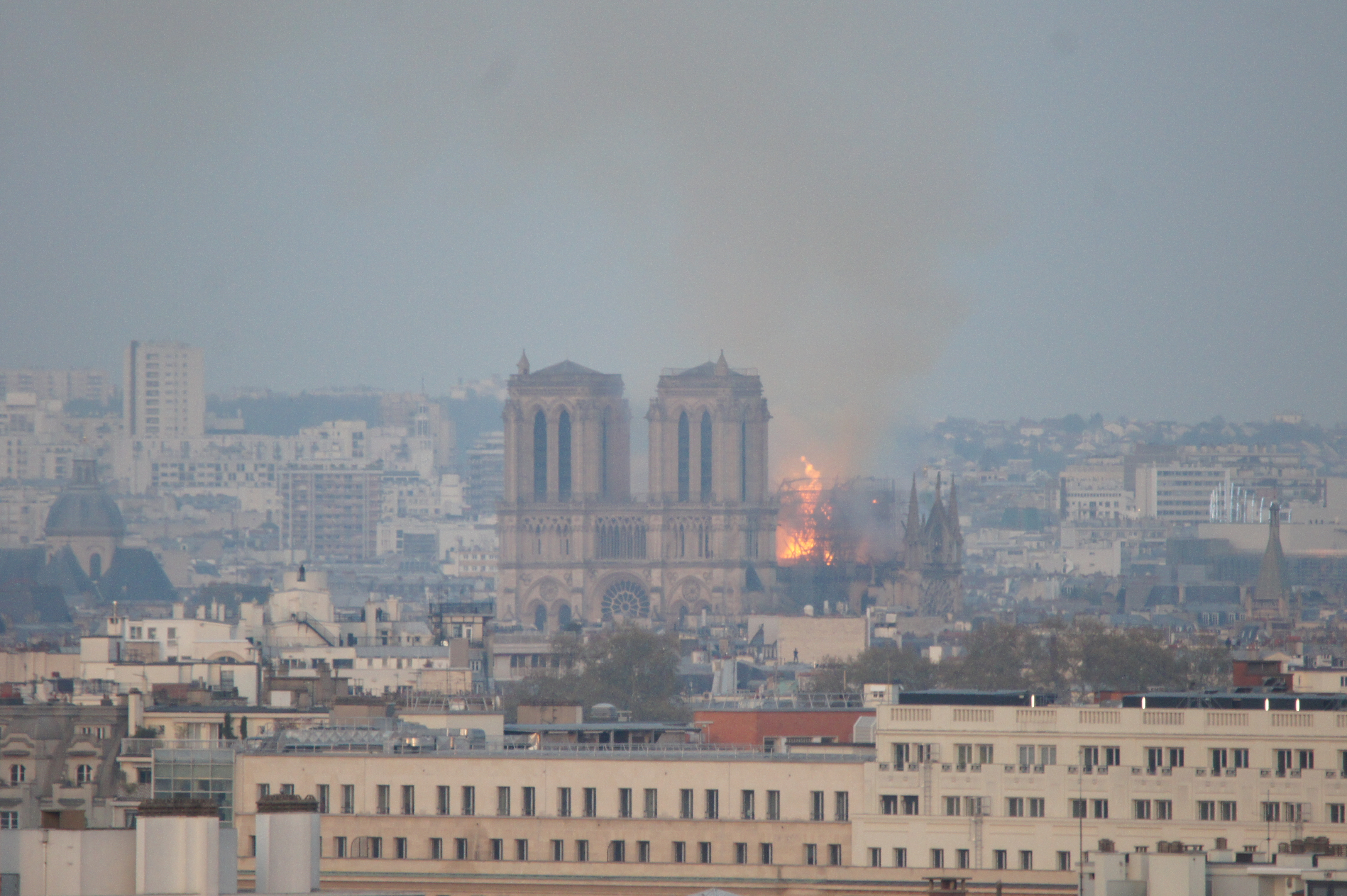 Fire at Notre-Dame de Paris on April 15th 2019